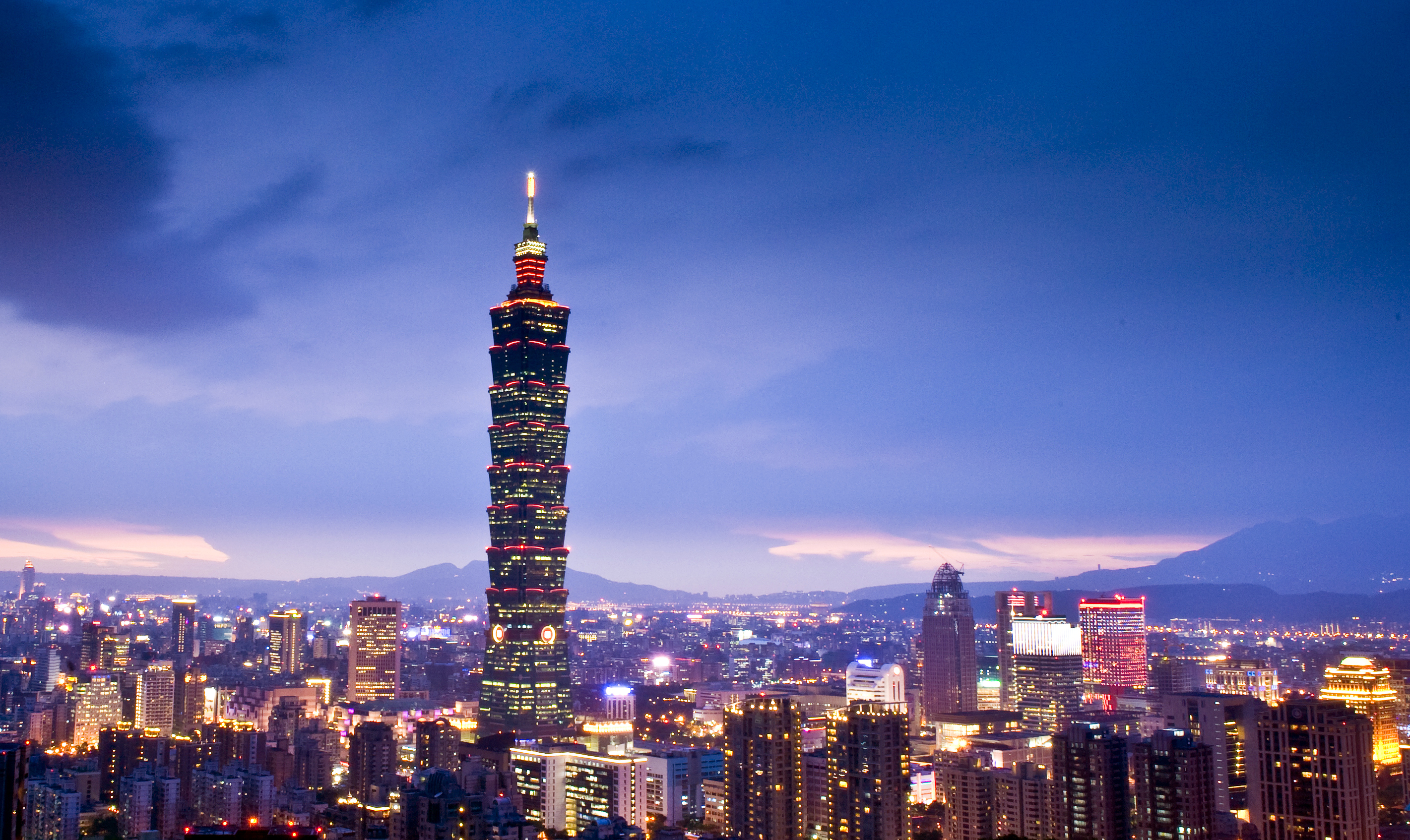 Taipei 101